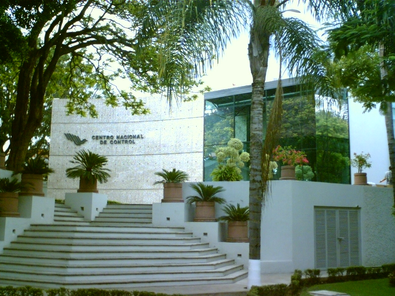 National Control Center operated by Caminos y Puentes Federales de Ingresos y Servicios Conexos (CAPUFE) at Cuernavaca, Morelos, Mexico.